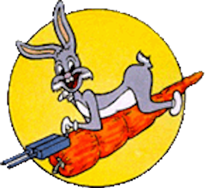 Emblem of the 503d Fighter Squadron (USAAF)